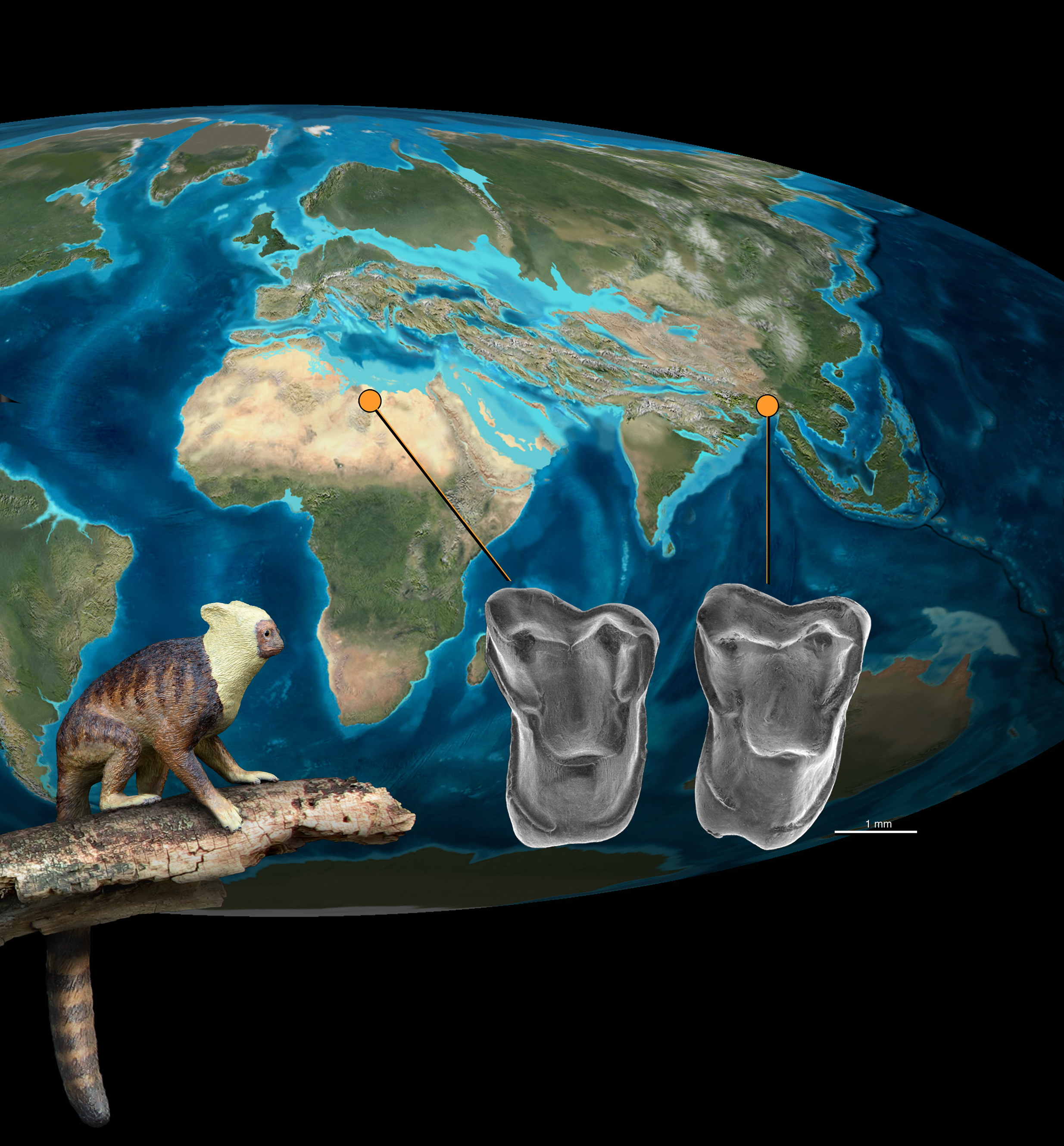 Comparison between two fossil species of afrotarsiid, Afrasia and Afrotarsius, both from the Eocene, but the former was found in Asia and the latter was found in Africa. According to the authors, this discovery adds support to the hypothesis that simians (monkeys & apes) originated in Asia and dispersed to Africa during the late middle Eocene.